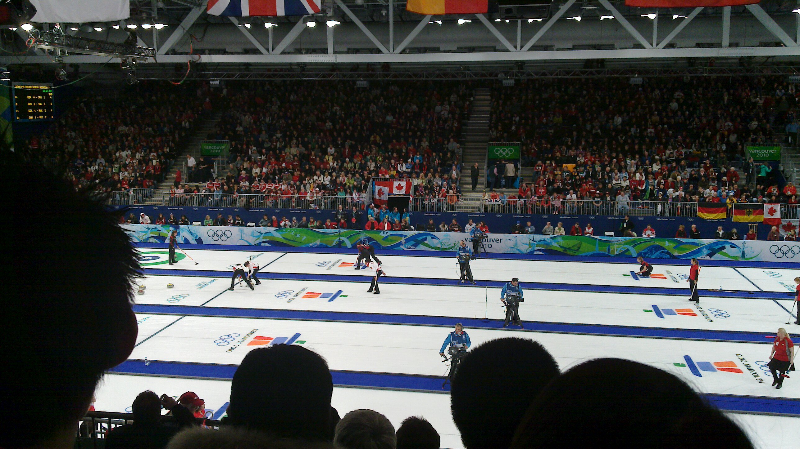 The Vancouver Olympic/Paralympic Centre (2010/02)